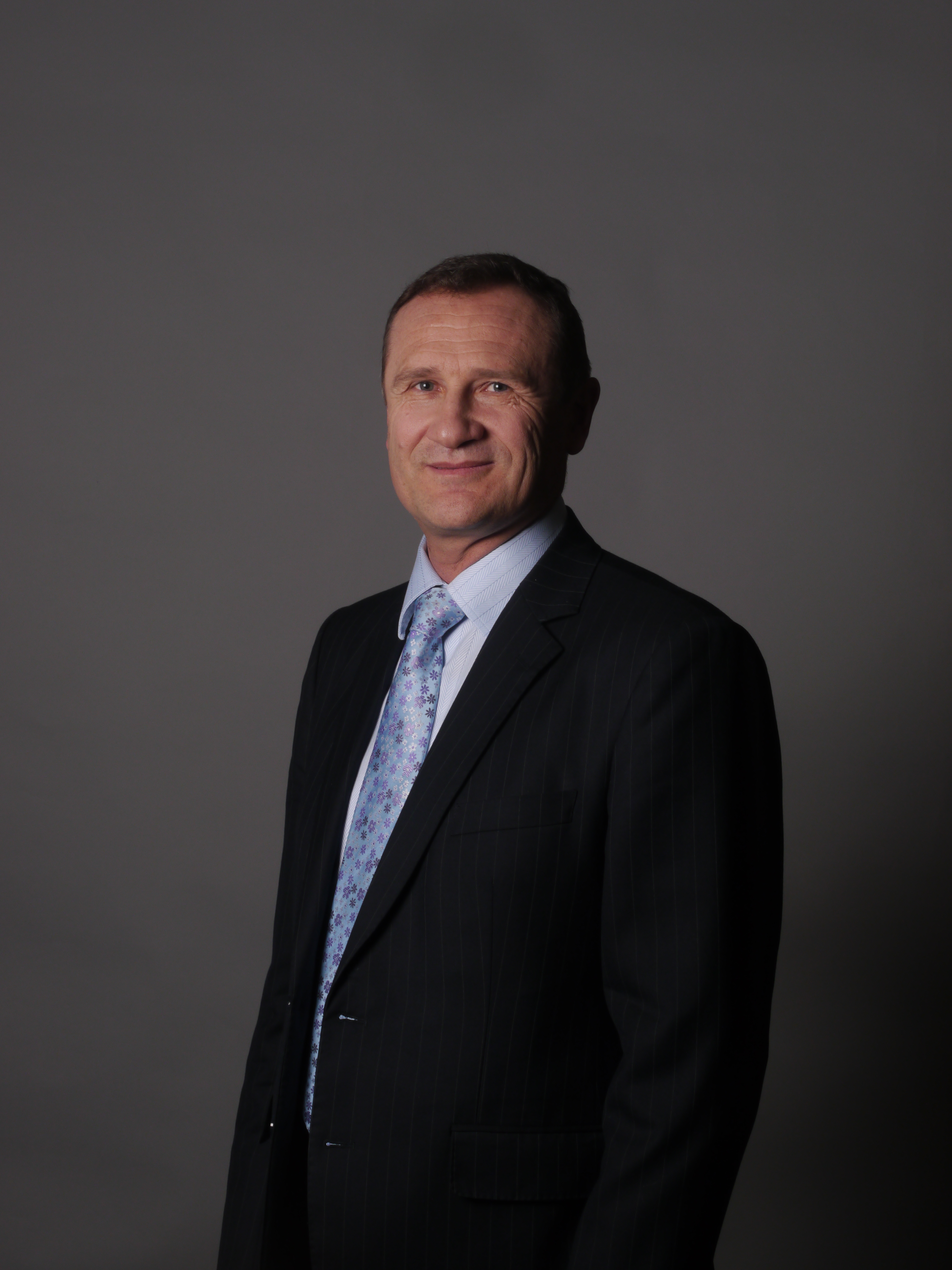 Photograph taken during Wiki Loves Parliament in february 2014 in European Parliament of Strasbourg.